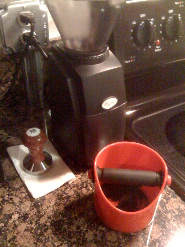 Taken 2009-5-10 12:55 PM GMT -8:00 by TROGG. All rights released.